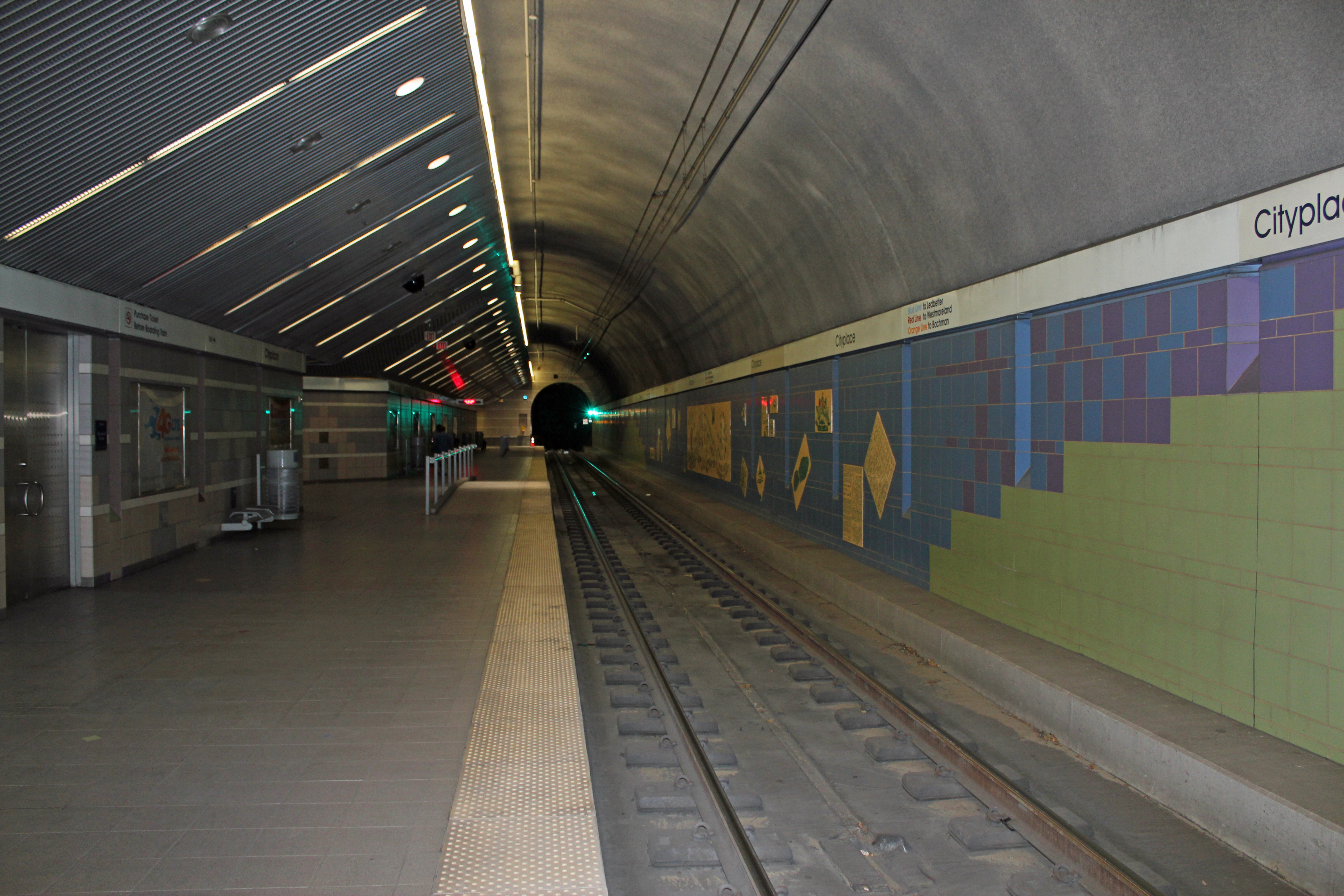 The Cityplace DART light rail station, located at 2711 North Haskell Avenue in Dallas, Texas. This view shows the inbound platform.